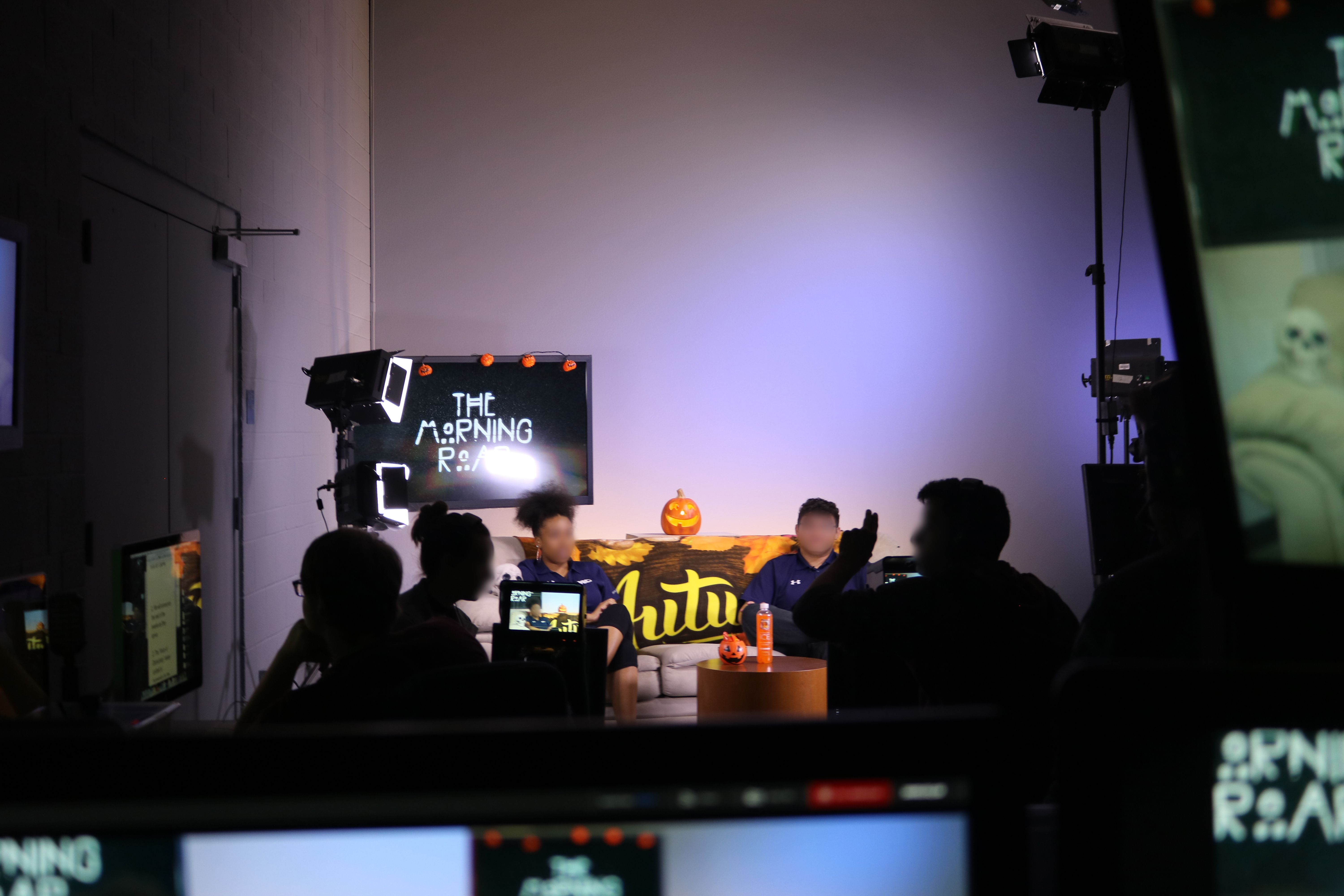 Behind the scenes shot of WCHS TV studio